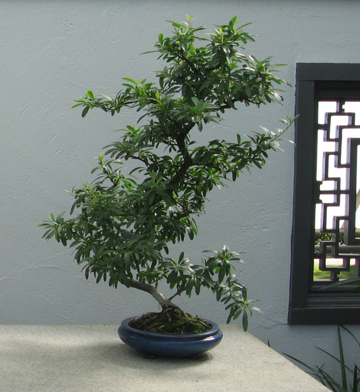 Pyracantha crenulata bonsai, Jardin botanique de Montréal